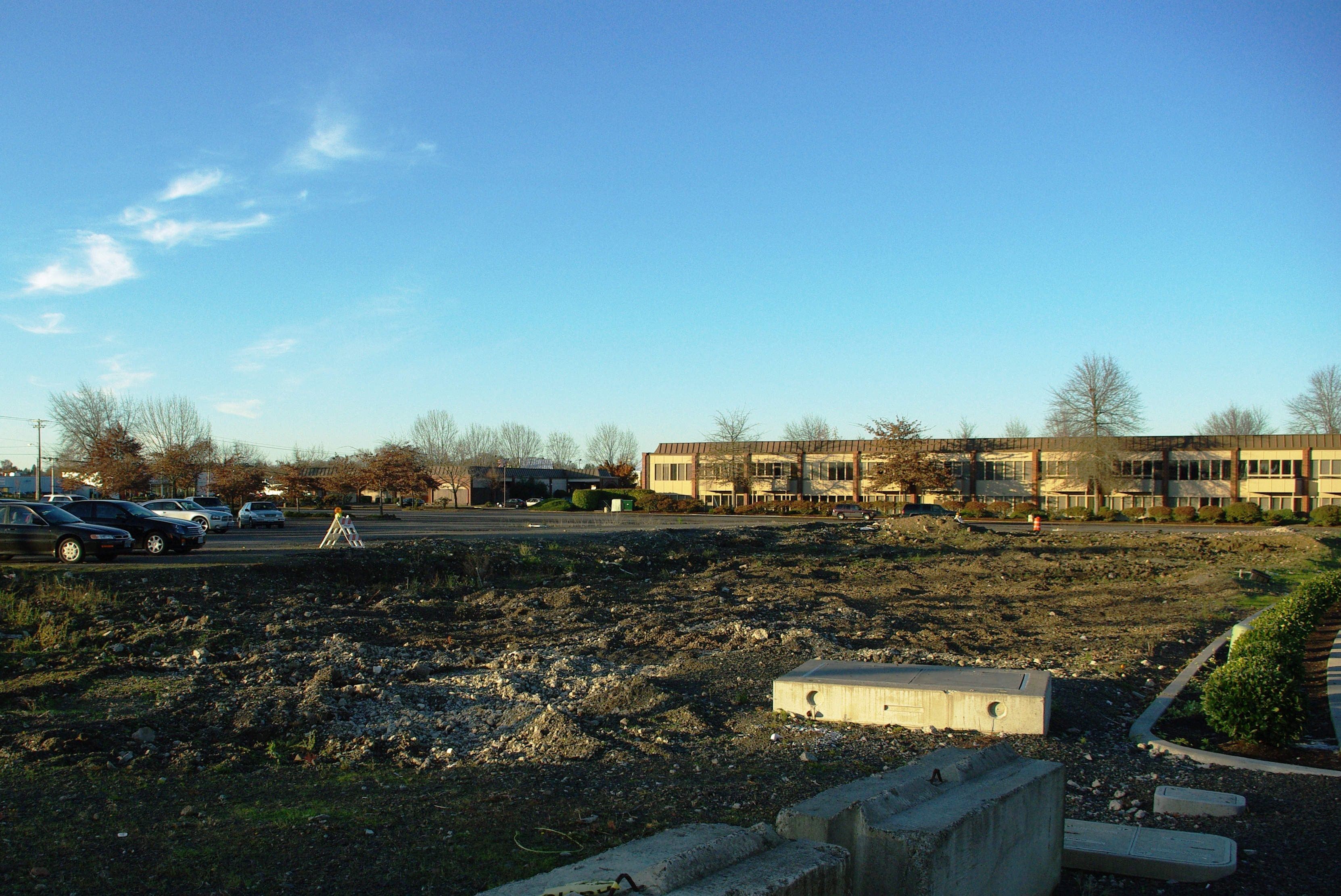 Former location of the Westgate Theater, once a proposed site for a stadium to host the Portland Beavers AAA baseball team.